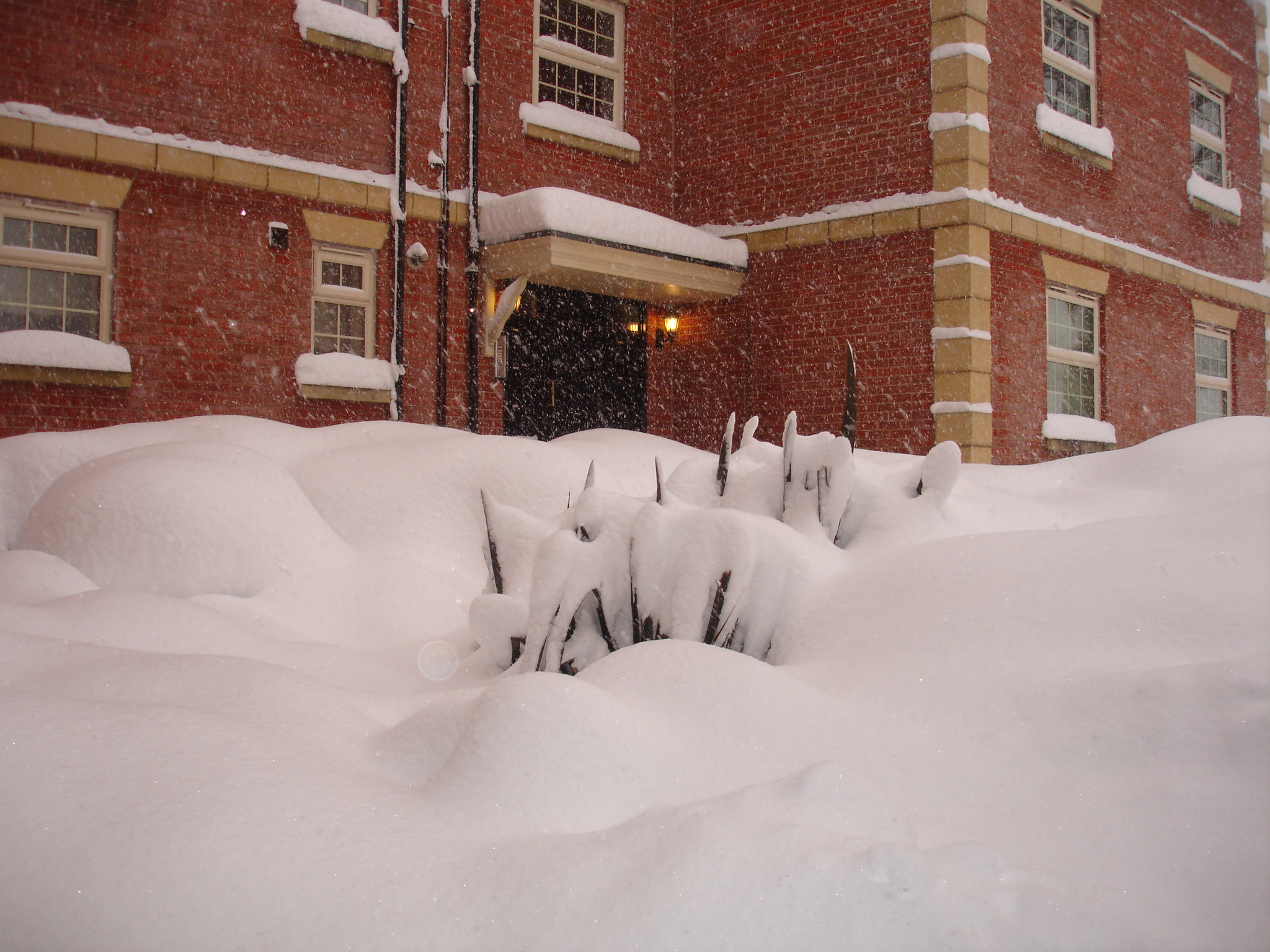 Snow in Sheffield, South Yorkshire, 1 December 2010